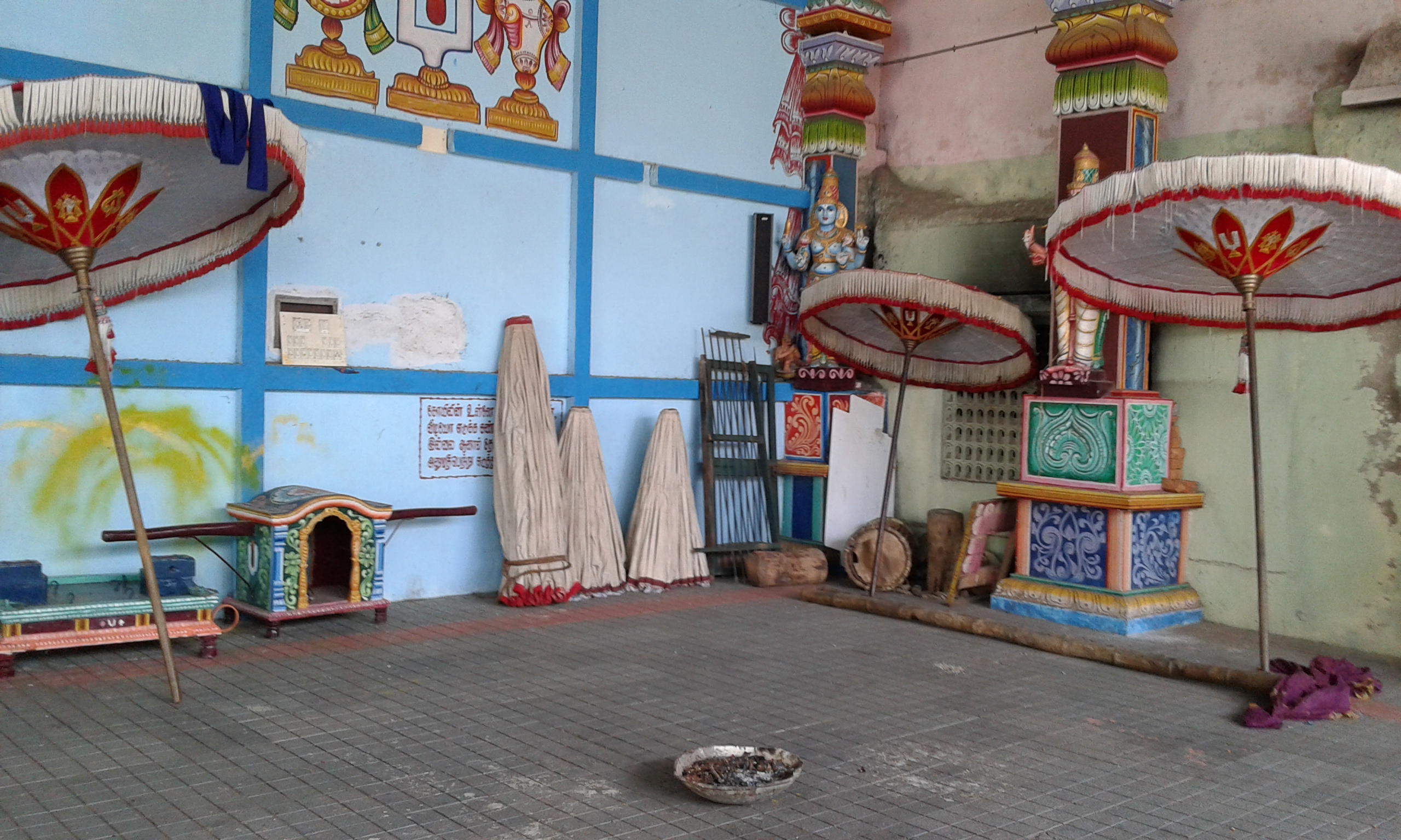 Adikesava Perumal temple, Mylapore